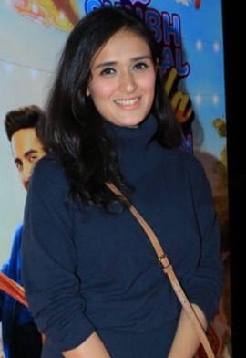 Actress Pankhuri Awasthy at the trailer success party of her film Shubh Mangal Zyada Saavdhan